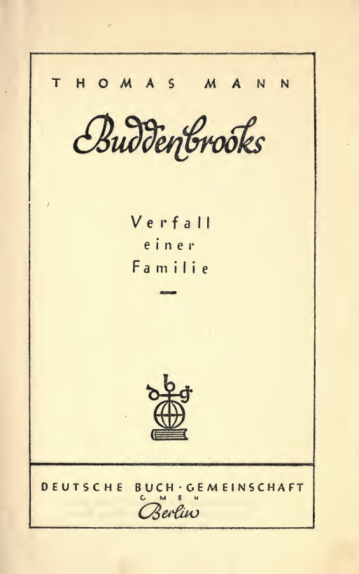 Title page